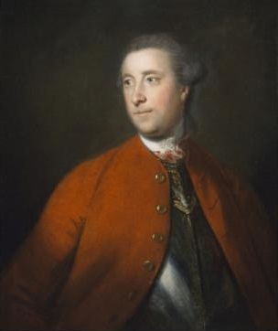 Colonel the Honourable John Barrington